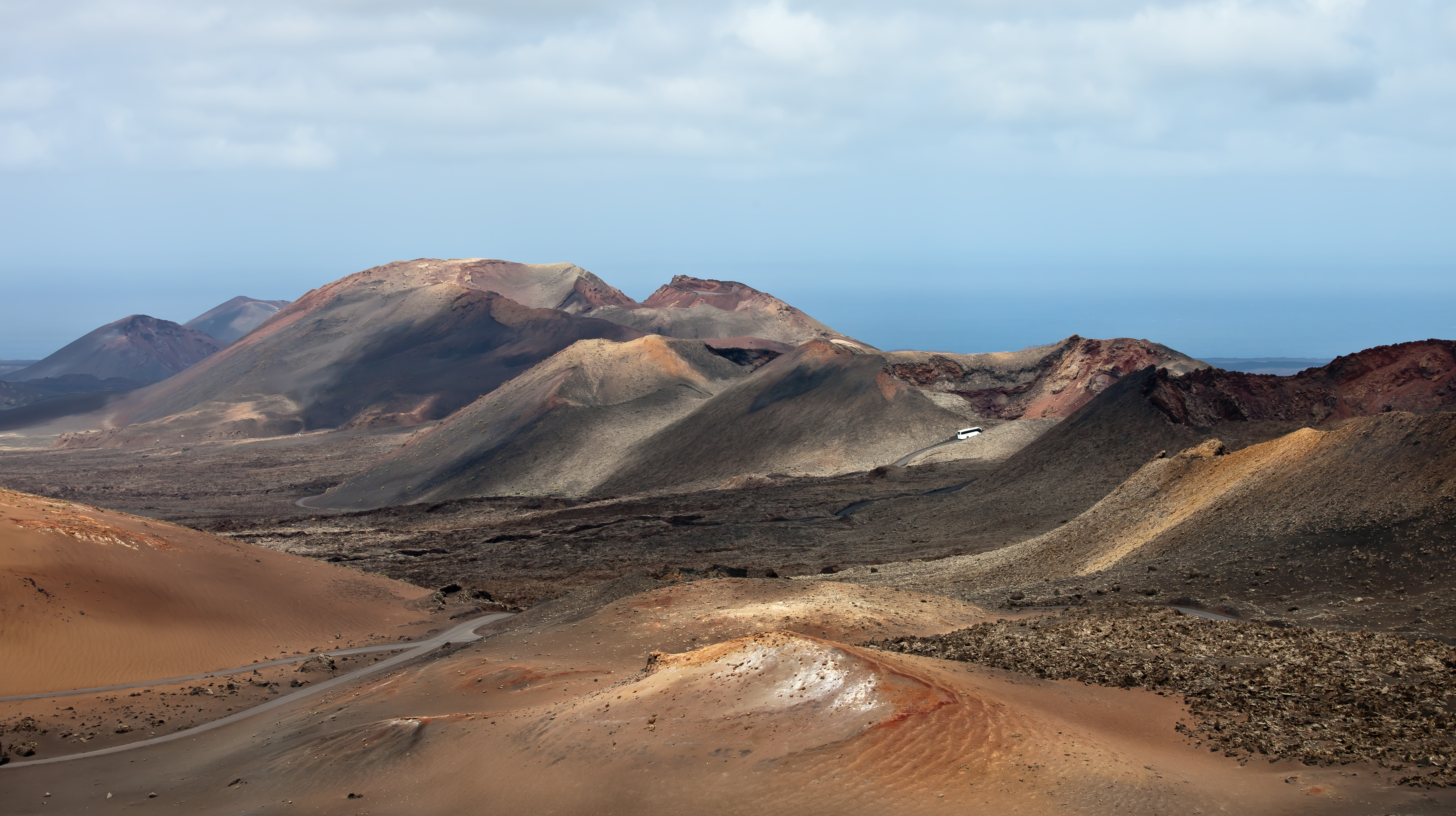 Timanfaya National Park, Lanzarote, Canary islands, Spain.